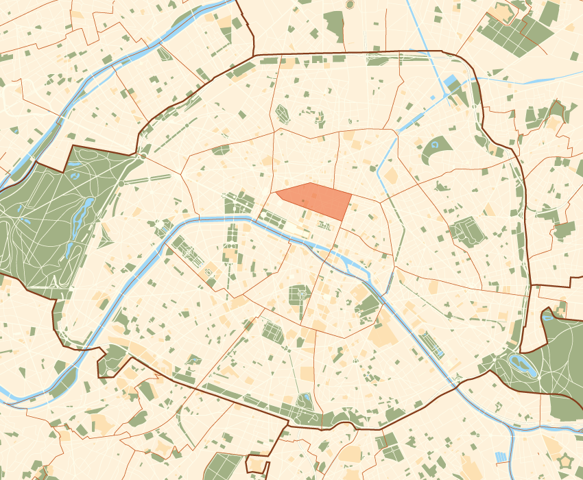 Plan by ThePromenader (own work)